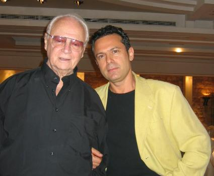 Dr. Rafael (Rafi) Kishon (r) and his Father Ephraim (l)